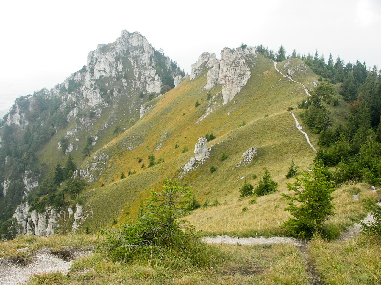 Ostrá mountain in the Bralná Fatra part of the Veľká Fatra range, Slovakia